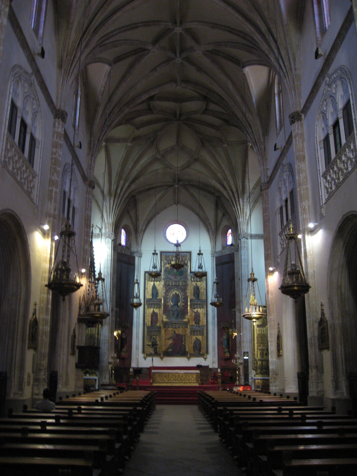 San Jerónimo el Real